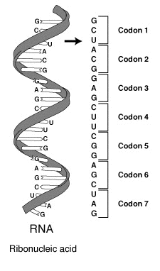 Description: RNA codons. Source: [1] (file) License: "All of the illustrations in the Talking Glossary of Genetics are freely available and may be used without special permission." [2]